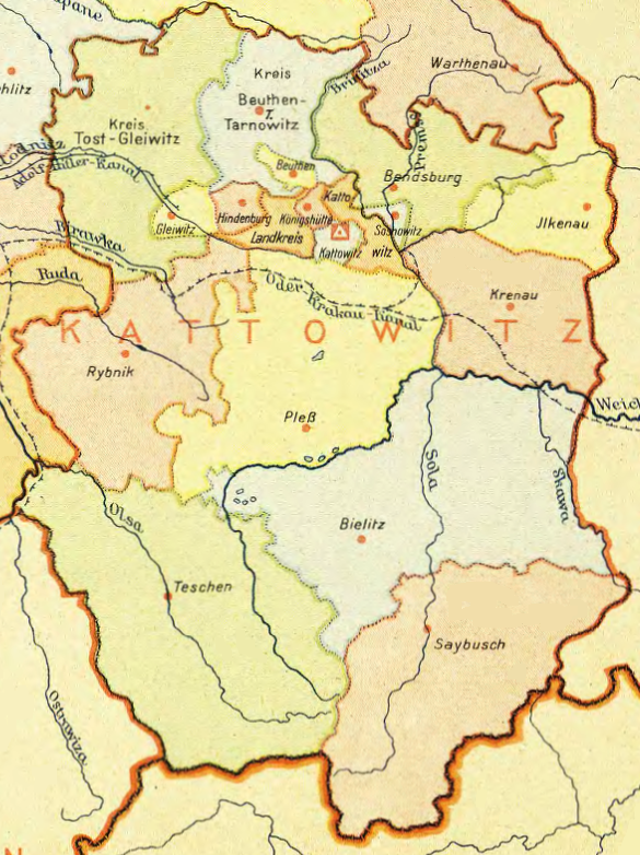 Map of "Gau Oberschlesien", 1943